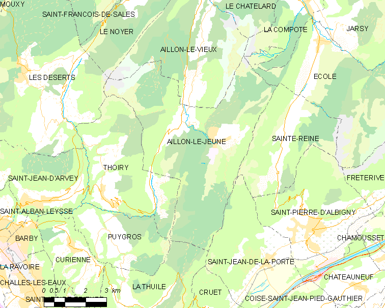 Map of French municipality